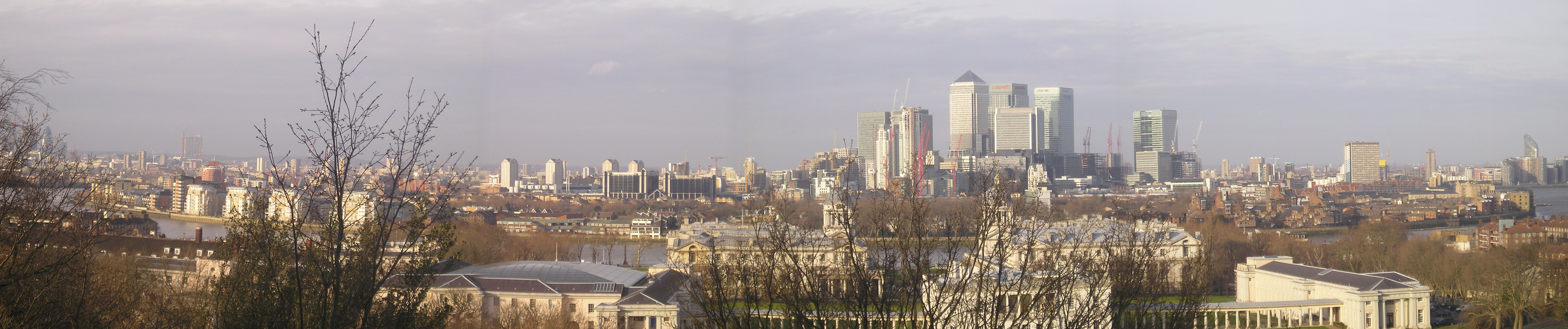 Panoramas of London